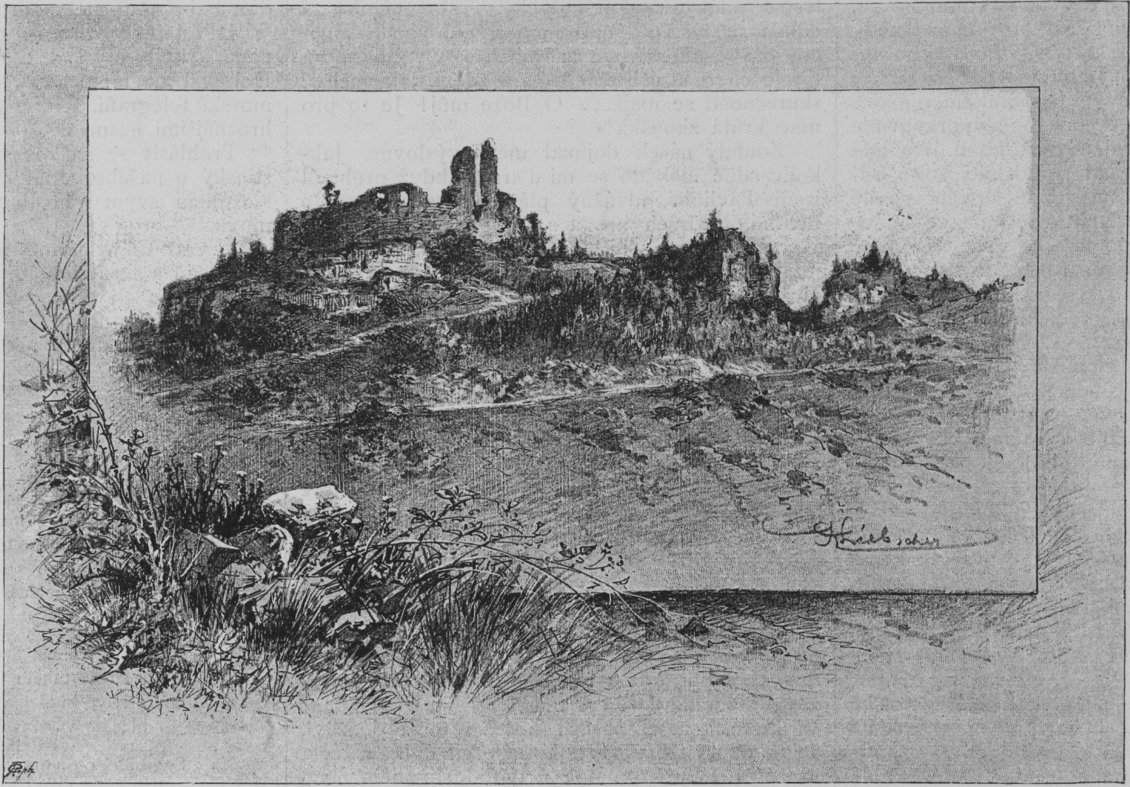 Castle ruin in Brandýs nad Orlicí on a black-and-white copy of a painting.